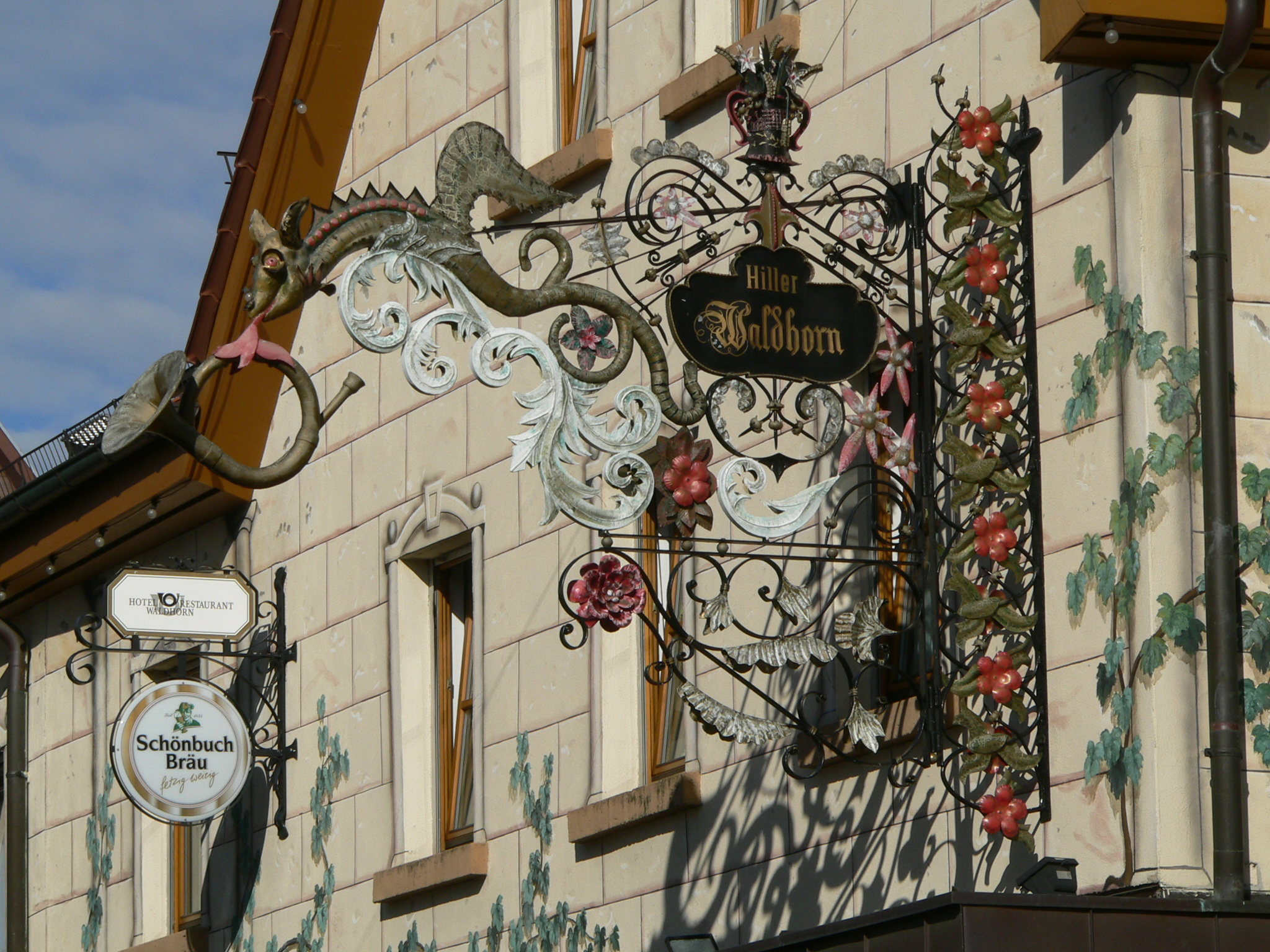 Inn sign of the hotel Waldahorn in Holzgerlingen, Germany